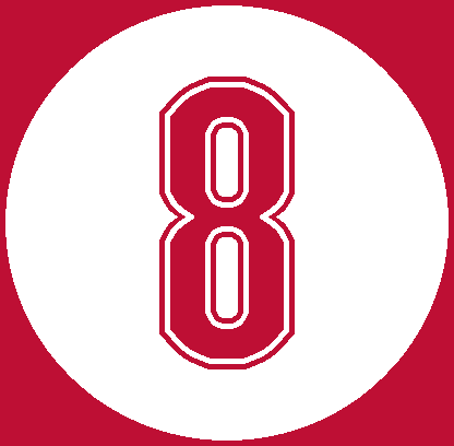 The number "8", retired for Joe Morgan by the Cincinnati Reds.